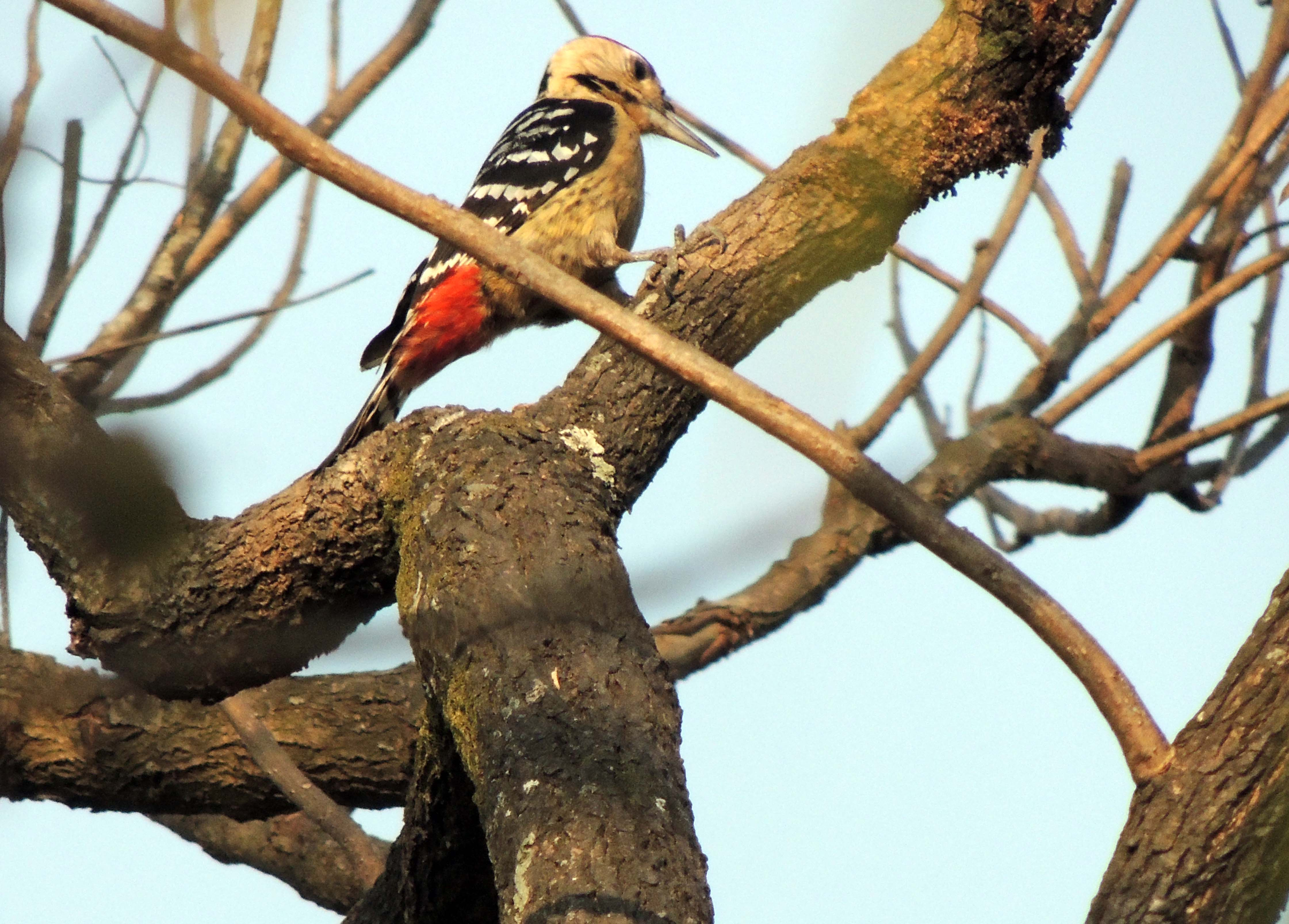 Fulvous-breasted Woodpecker Dendrocopos macei at North Bengal University campus